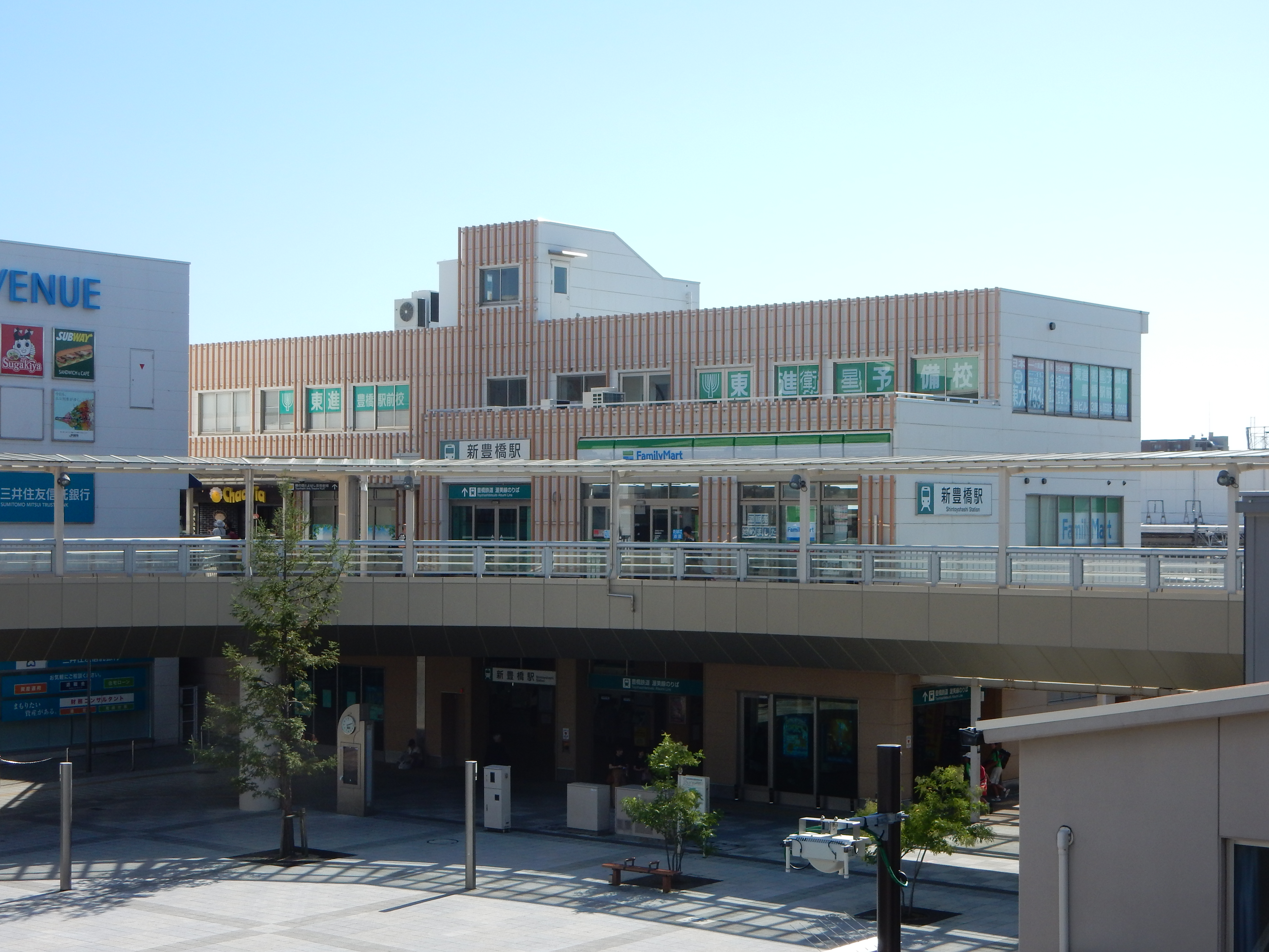 Shin-Toyohashi Station, at 41 Nishijuku, Hanada-cho, Toyohashi, Aichi prefecture, Japan